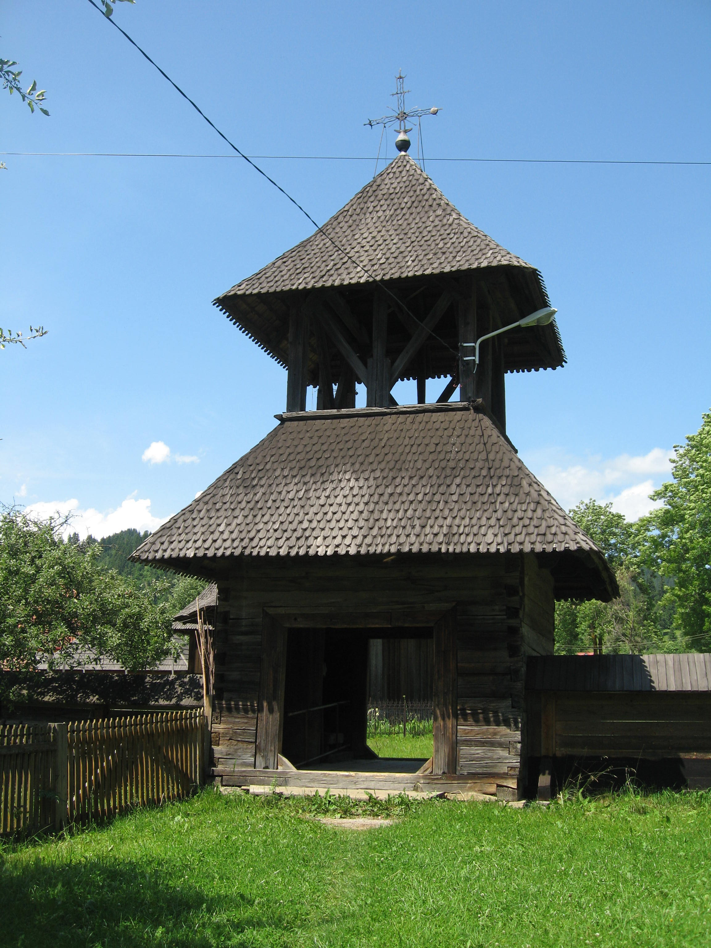 Biserica de lemn din Colacu 03